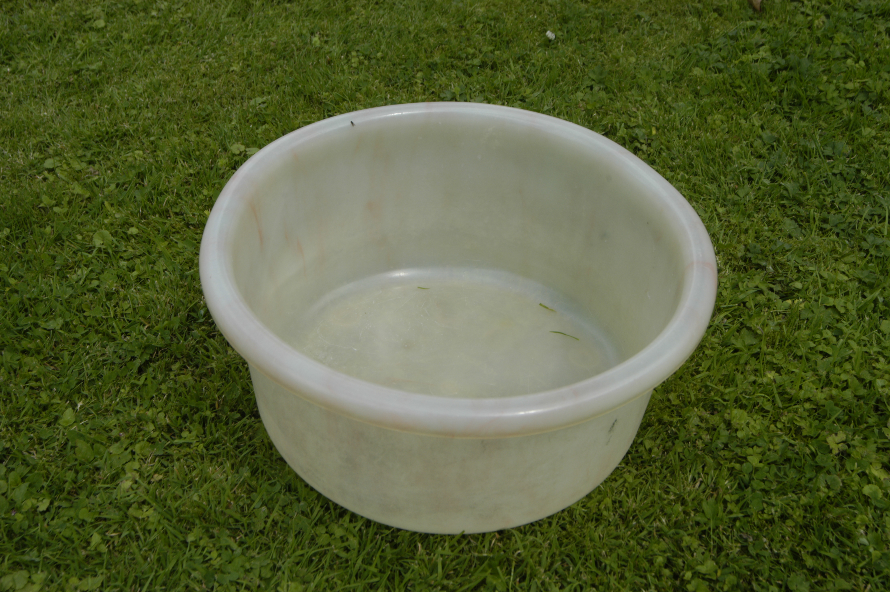 My photo (R. de SalisRodolph (talk) 11:39, 2 July 2014 (UTC)) of a plastic (LDPE) bowl, by GEECO, Made in England, c1950. Other information GEECO bowl